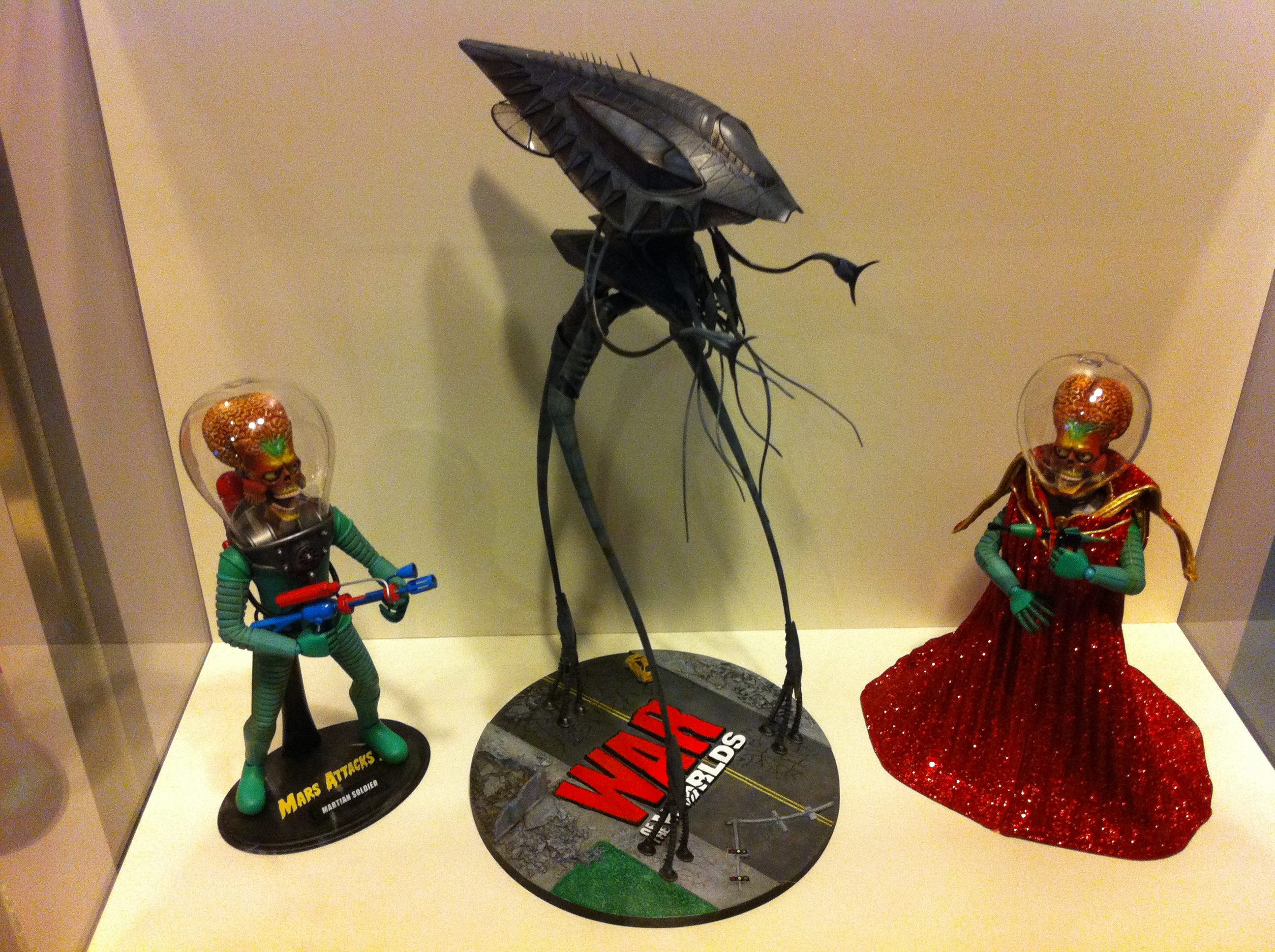 香港太空館, Salisburgy Road, Tsim Sha Tsui, Hong Kong